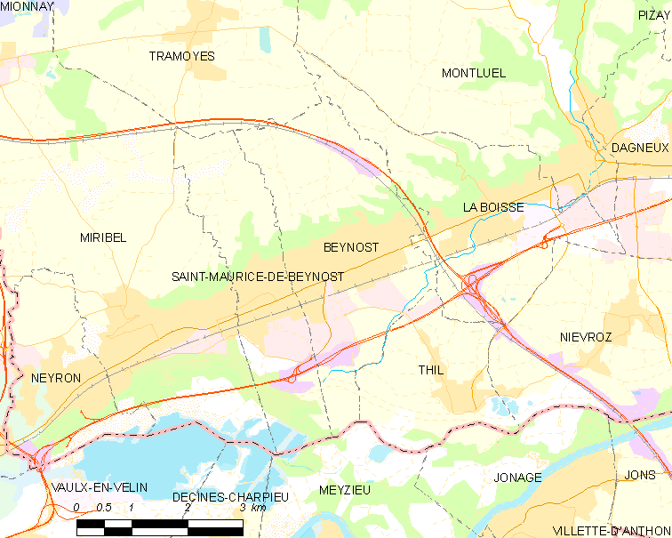 Map of French commune: Beynost Map commune FR insee code 01043.png